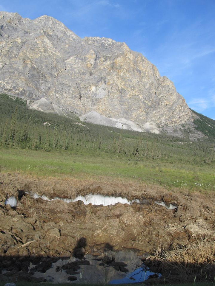 Sukakpak Mountain Area of Critical Environmental Concern One of the most visually stunning areas on #BLM managed public lands along the Dalton Highway in northern Alaska is Sukakpak Mountain (MP 203). A massive wall of Skajit Limestone rising to 4,459 feet (1,338m) that glows in the afternoon sun, Sukakpak Mountain is an awe-inspiring sight. Peculiar ice-cored mounds known as palsas punctuate the ground at the mountain's base. "Sukakpak" is an Inupiat Eskimo word meaning "marten deadfall." The mountain resembles a carefully balanced log used to trap marten. Sukakpak Mountain was designated in 1990 as a #BLM ACEC to protect extraordinary scenic and geologic formations. Palsas at the base of Sukakpak Mountain. By Karen Deatherage, BLM